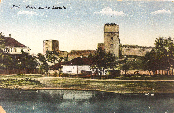 Colored postcards with views of Lutsk (1916). Publishing by Abram Isaac Ostrowski from negatives by Hershey Lieberman.